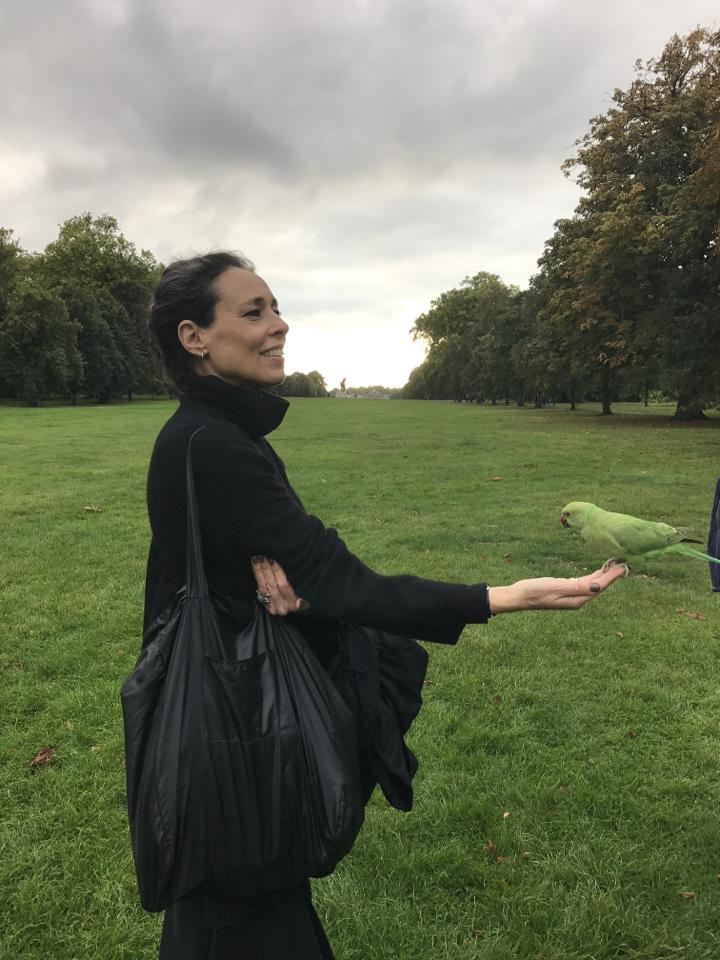 Photograph by JG/Joseph Grigely